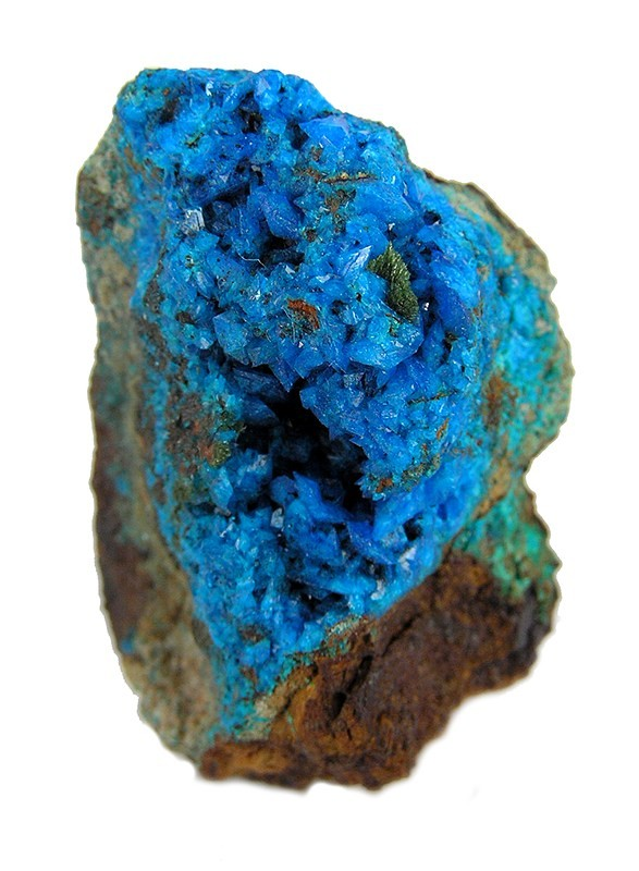 Liroconite Locality: Wheal Gorland, St Day United Mines (Poldice Mines), Gwennap area, Camborne - Redruth - St Day District, Cornwall, England, UK (Locality at ) A stellar specimen with MESMERIZING color! this has the mos tintense blue I have seen before on a specimen o f liroconite, almost neon and metallic! It was mined in the mid-1800s, and such pieces are very scarce today. This one, although small in crystal size, is rich overall and simply blows you away for sheer beauty. It is an extremely fine miniature, from these long-gone mines. 4.0 x 2.5 x 2.4 cm